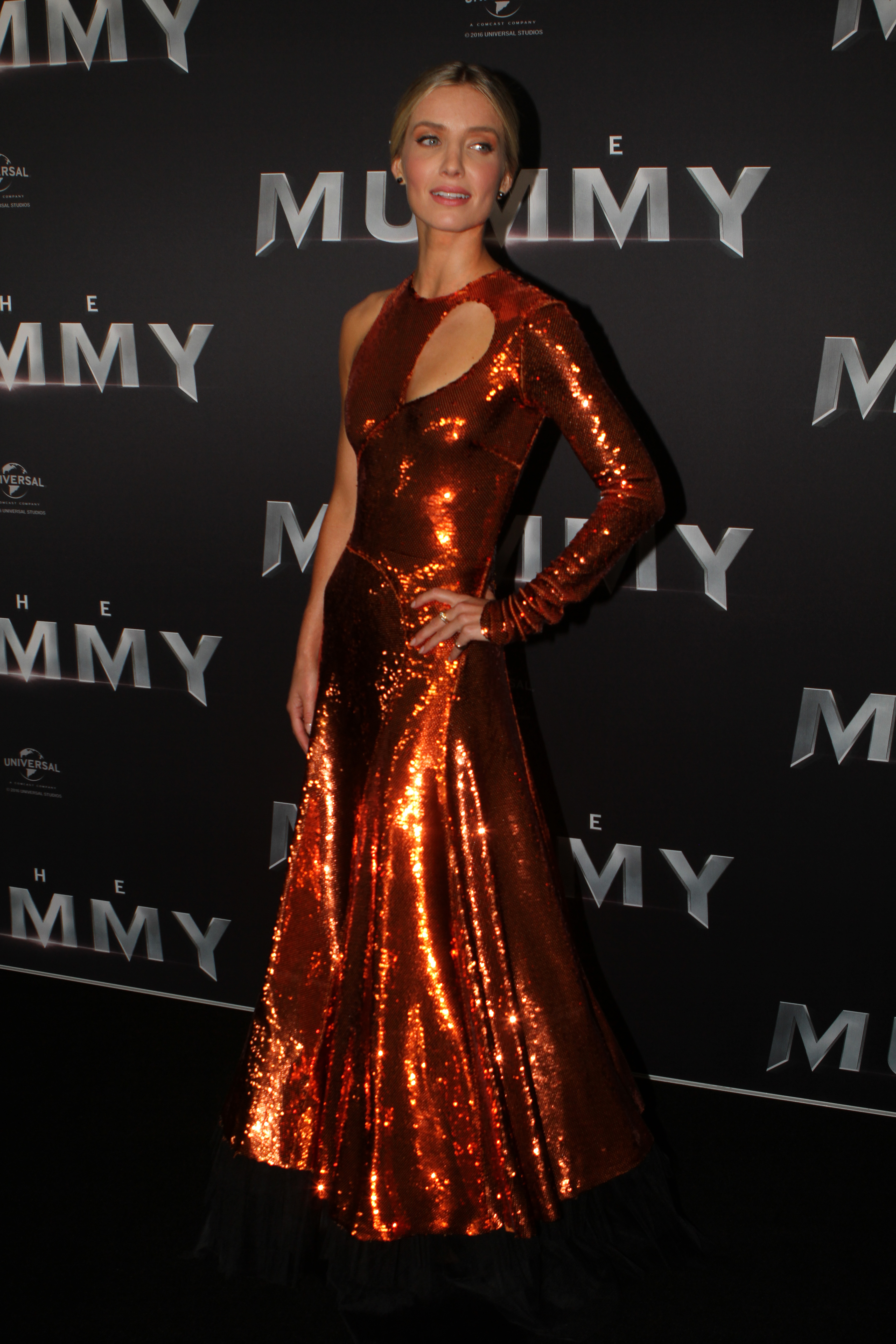 Annabelle Wallis at The Mummy Black Carpet Premiere in Sydney, Australia